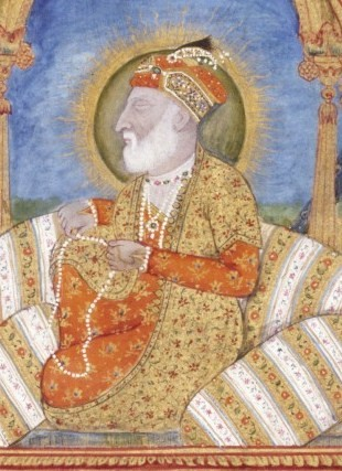 Ali Gauhar (Shah Alam II) of India.